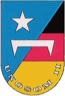 Internal coat of arms of the Bundeswehr (Armed Forces of the Federal Republic of Germany). → Remarks on naming and categorization scheme Logo German UN-Troops in Somalia